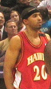 Joe Smith attempts a free throw in the March 13, 2006 Milwaukee Bucks game against the Atlanta Hawks. Josh Smith of the Hawks (#5, no relation) and Salim Stoudamire (#20 of Hawks) look on.